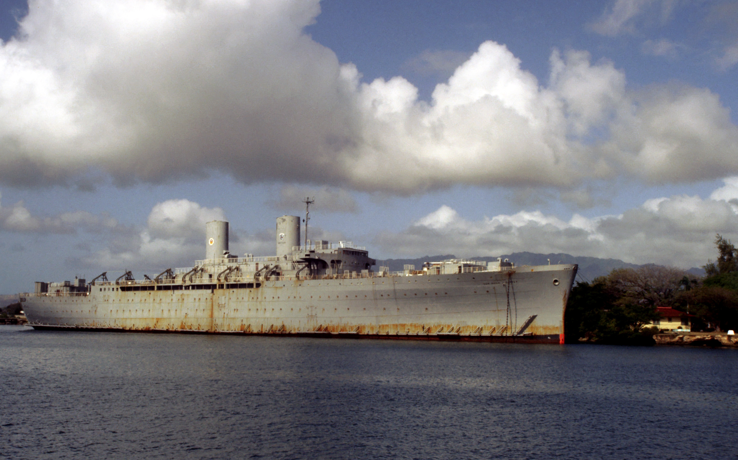 The U.S. Navy transport ship USS General Hugh J. Gaffey (IX-507) moored at quay F5 at Pearl Harbor, Hawaii (USA). Formerly the transport AP-121, the ship had been commissioned as USS Admiral W.L. Capps (AP-121), an Admiral W.S. Benson-class transport, in 1944. She was decommssioned in 1946 and recommissioned in 1950. The ship was originally transferred to the U.S. Army and had been renamed USAT General Hugh J. Gaffey. Retaining her Army name, the transport was not re-commissioned, but instead was assigned to the Military Sea Transportation Service as USNS General Hugh J. Gaffey (T-AP-121) until being decommissioned again in 1969. General Hugh J. Gaffey was placed in service in November 1978 at Bremerton, Washington, to serve as a barracks ship for the crews of ships undergoing major overhaul. She was struck from the Naval Register in 1993 and sunk during exercise RIMPAC 2000 as a missile target on 16 June 2000 (location: 023° 35' 01.0" North, 159° 50' 00.2" West).